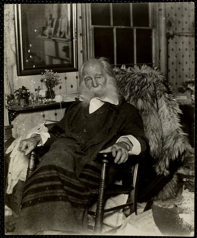 Photograph of American poet Walt Whitman in the last few months of his life in 1891. Pictured (in his bedroom?) at his home in Camden, New Jersey.